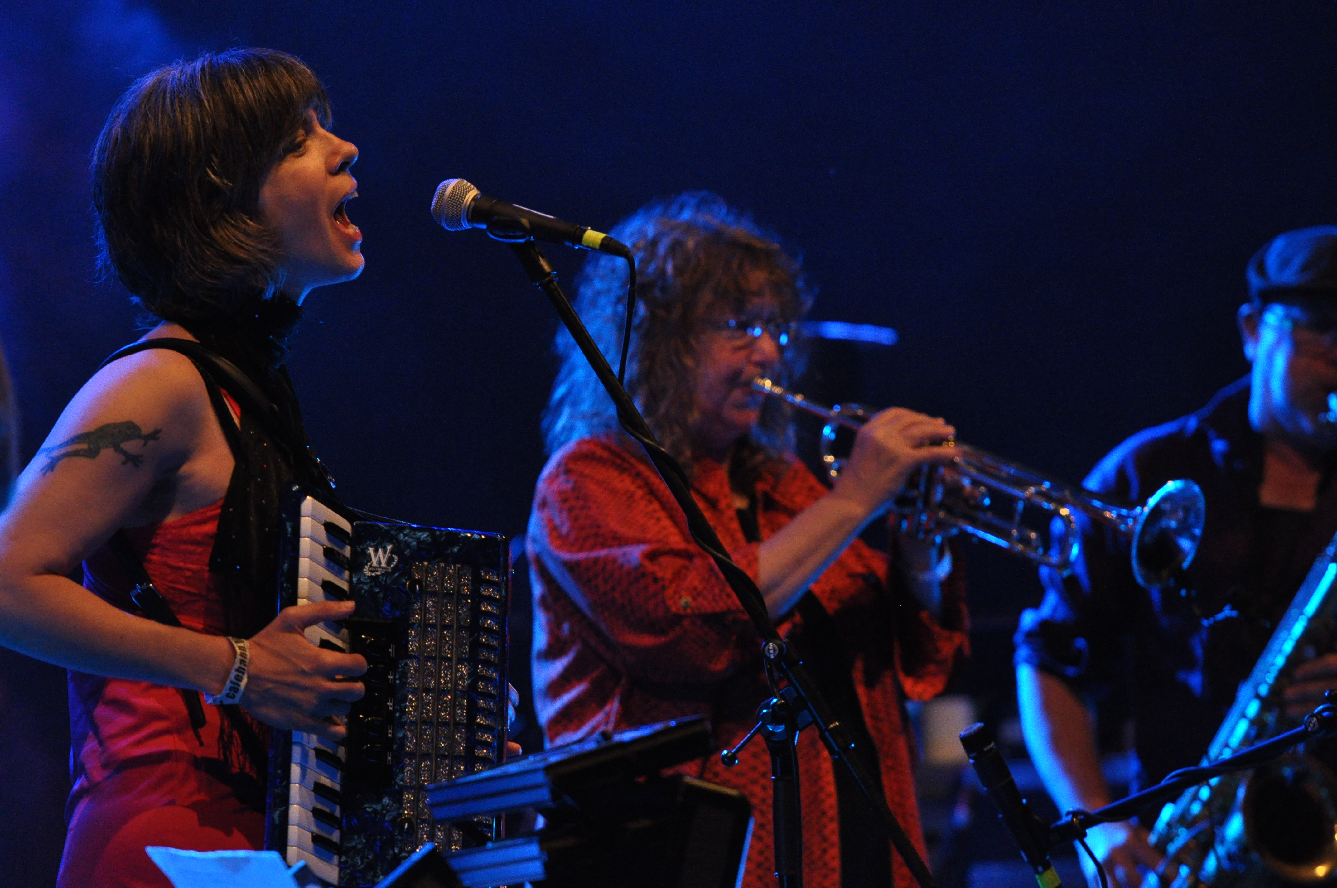 Hazmat Modine (USA), appearance at the 12th World Music Festival "Horizonte" 2014 at the fortress of Ehrenbreitstein, Koblenz (Germany)